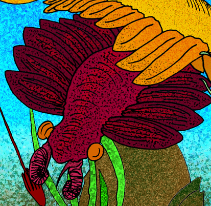 The Chinese anomalocarid, Amplectobelua symbrachiata, from the Cambrian (C) Stanton F. Fink